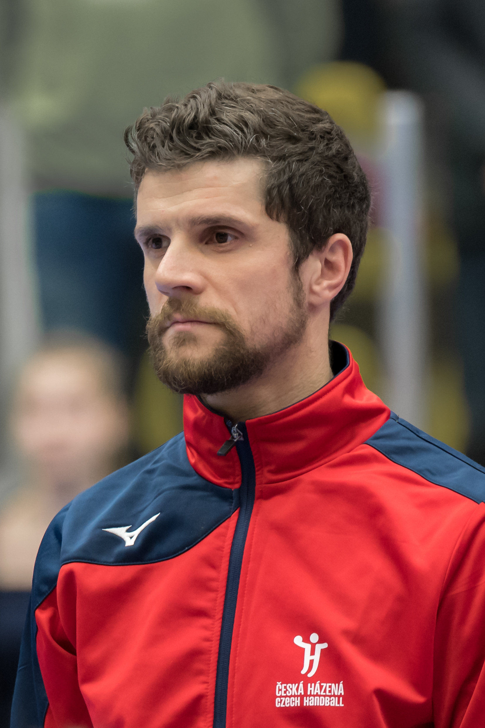 Men's handball Austria Czechia 2018-01-05, picture shows Ondřej Zdráhala